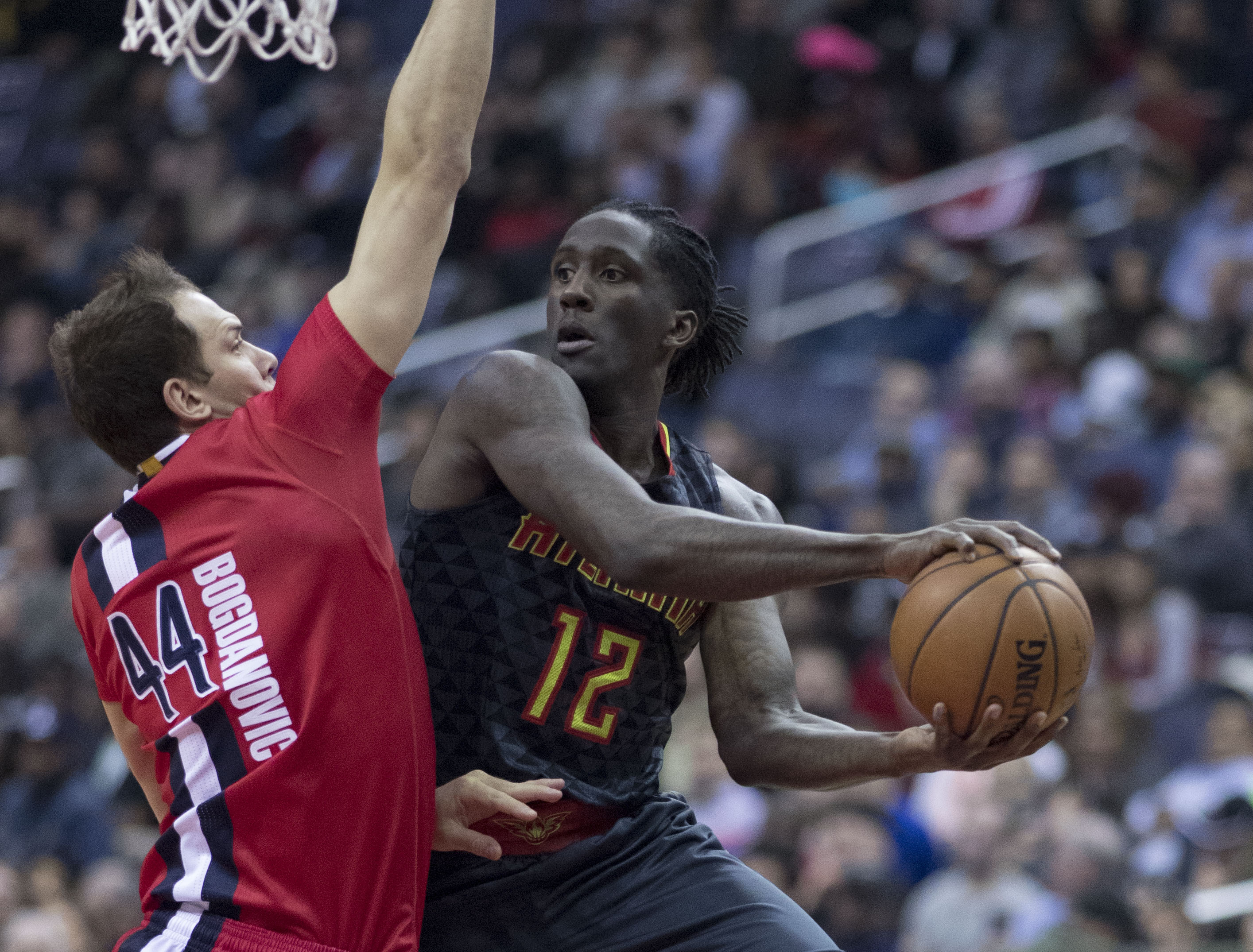 Hawks at Wizards 3/22/17